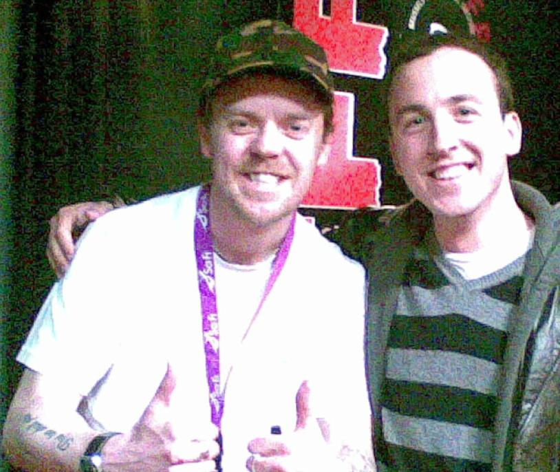 Paul Andrew Williams, English film writer/director at the 26th Brussels International Fantastic Film Festival, in March 2008